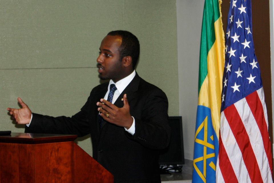 Samuel Gebru delivers opening remarks at an International Youth Day event organized by the Ethiopian Global Initiative and the Embassy of the United States to Ethiopia. (Addis Ababa, August 15, 2012) Photo: Daniel Mesfin/U.S. Embassy